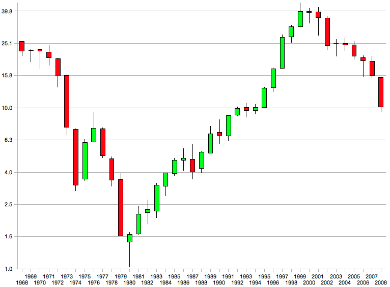 A historic long term candlestick chart in a logarithmic scale of the Dow/Gold Ratio (unit of DJIA measured in troy ounces of gold) for the years 1968 — 2008.